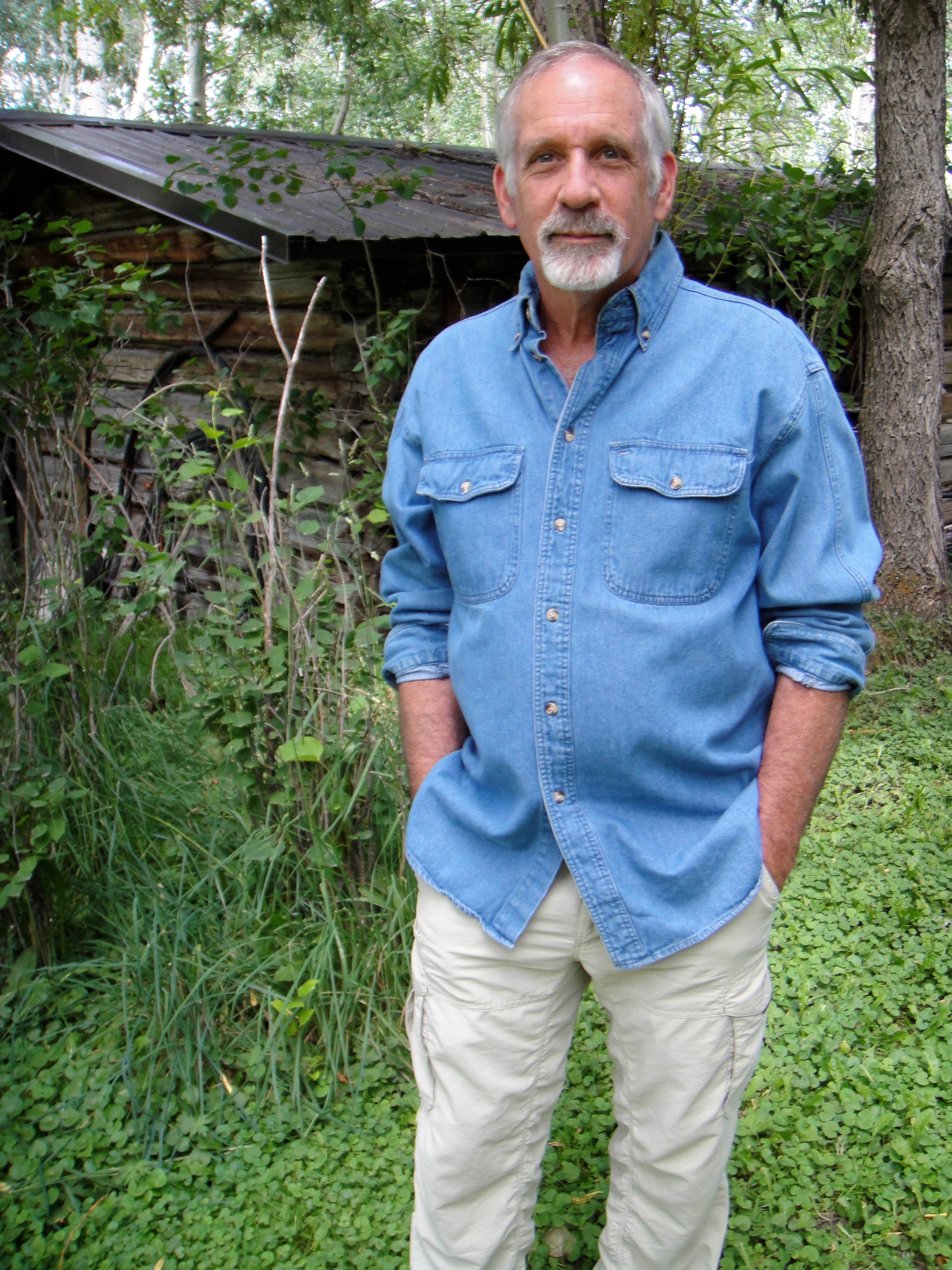 Summary Description Robert P. Stone on his Montana property Date 28 July 2014, 14:53:50 Source DeMaria, Richie – Santa Barbara Independent “A Conversation With Best-Selling Author Robert Stone” Mar. 8, 2015 Author Adrienne Metter - Permission granted/agreed to release the file under the given license Licensing This image was originally posted to